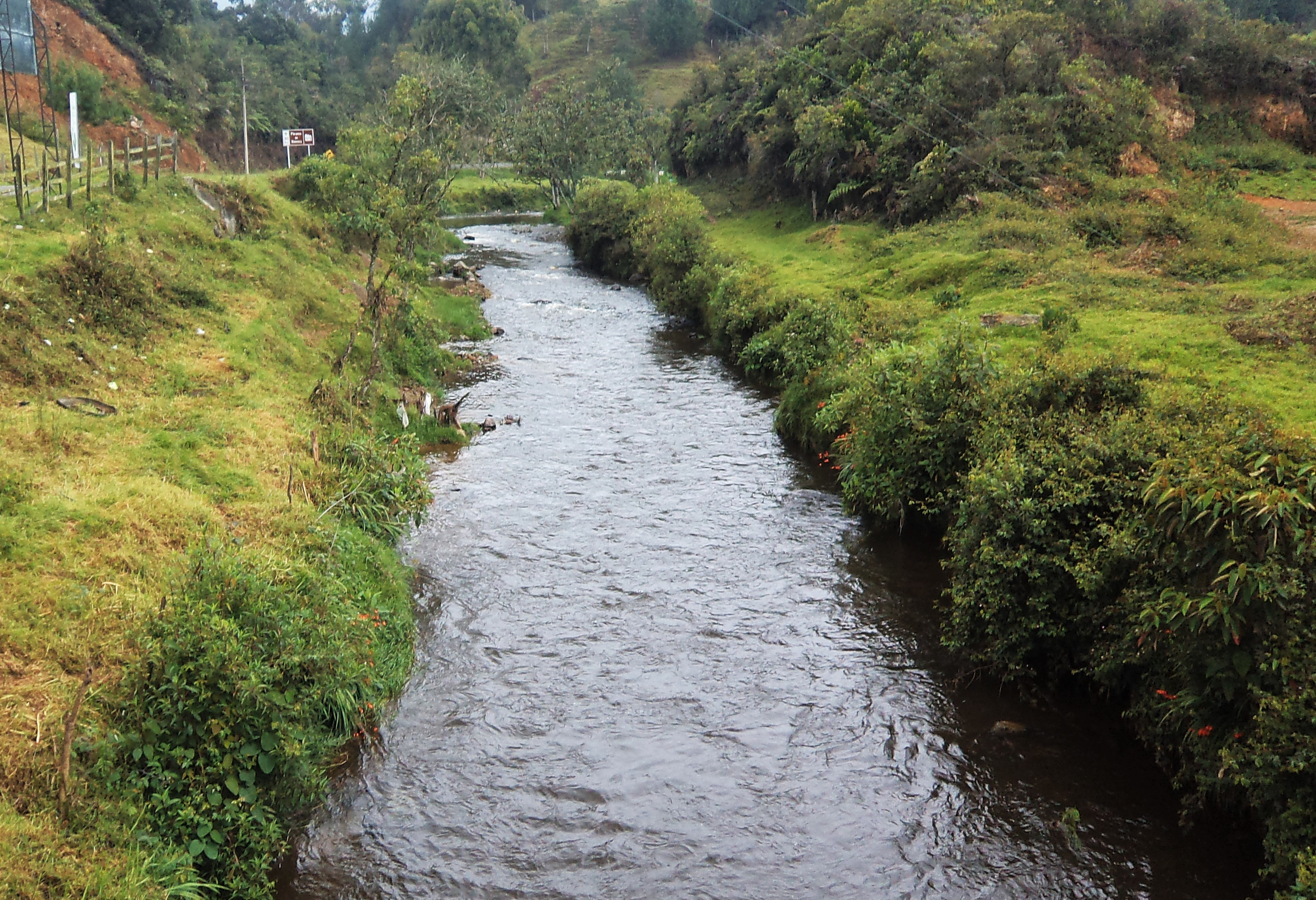 Rio Chico, Belmira